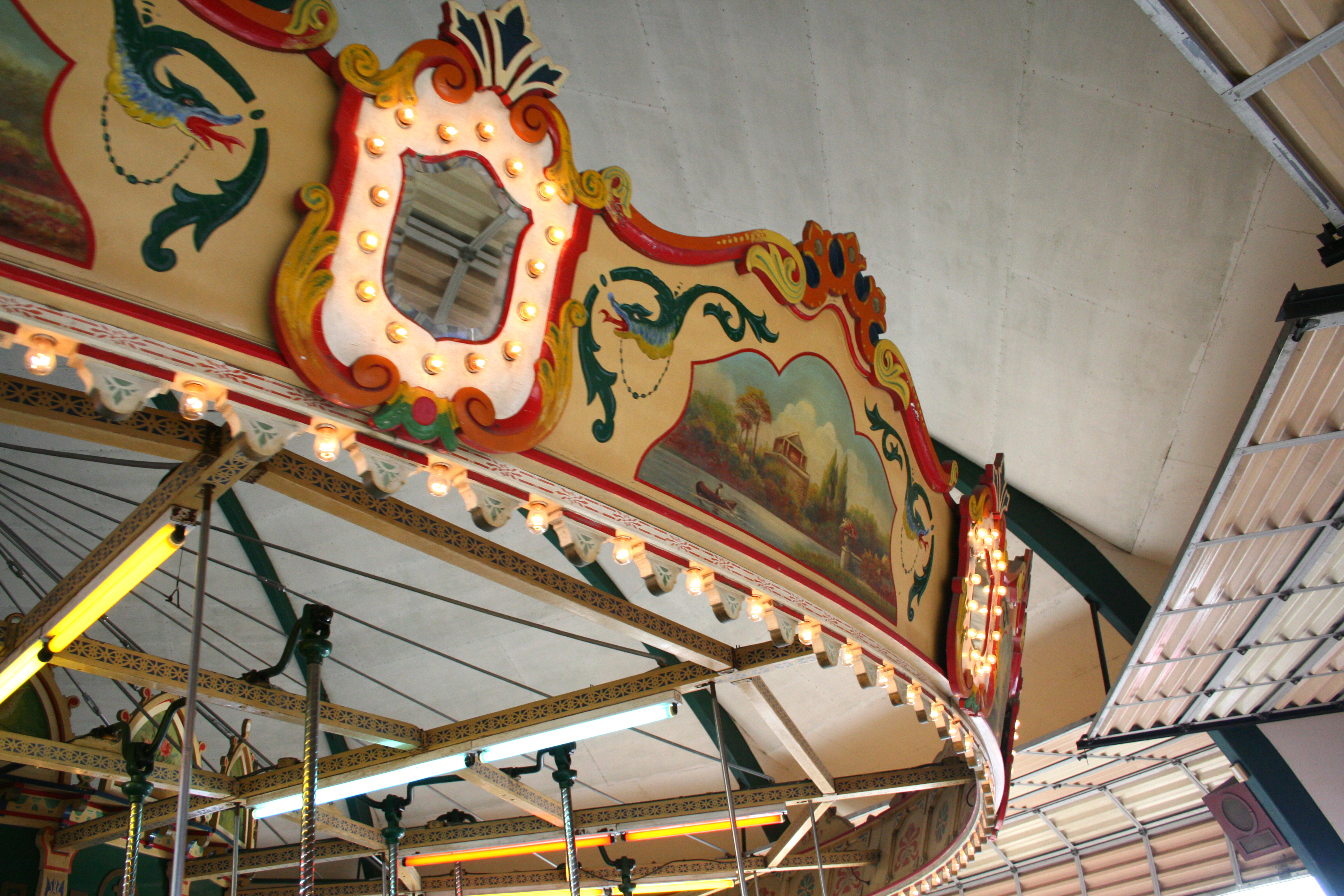 Carousel topper